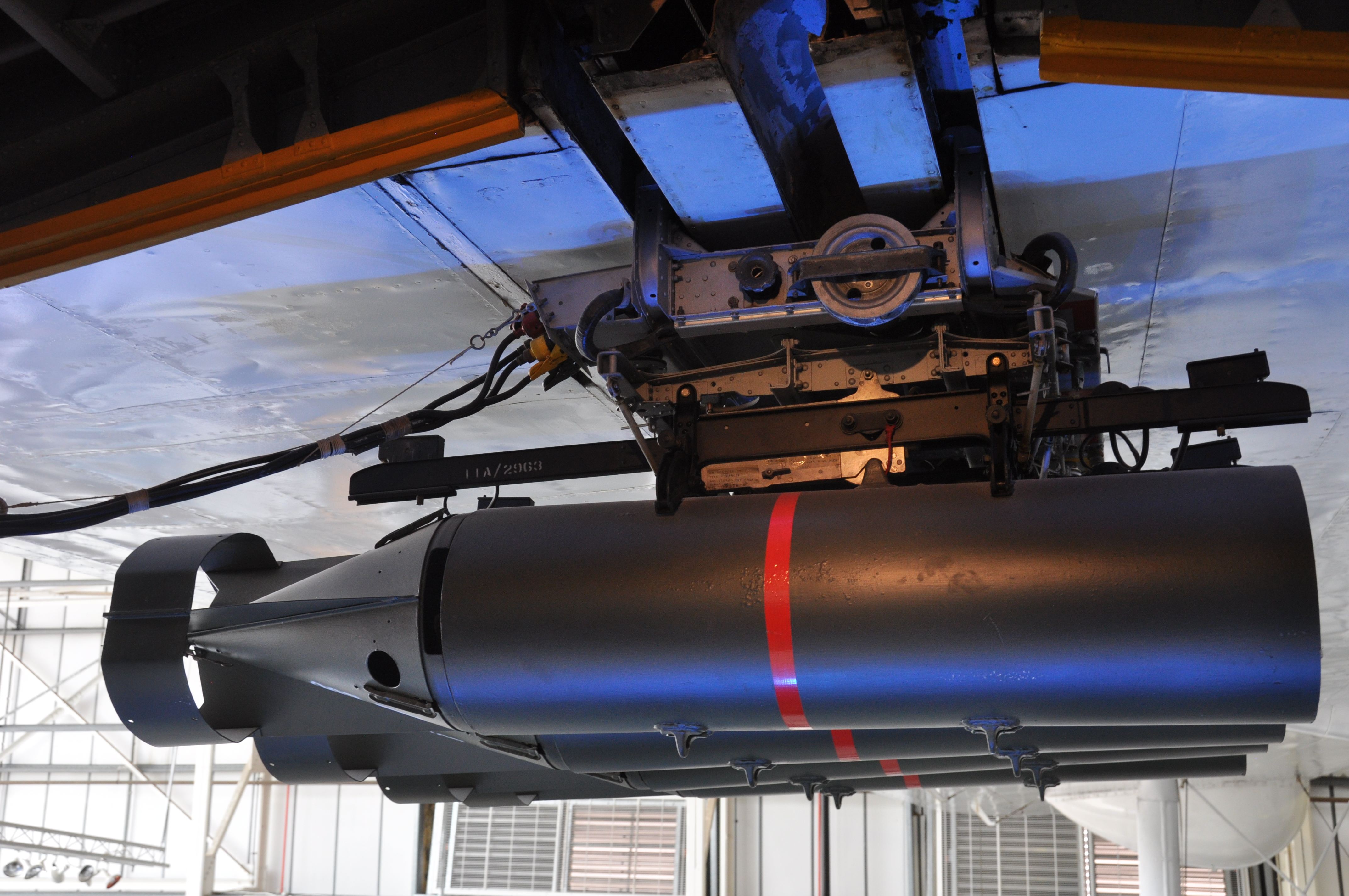 Pictures from WW2 hall at RAF Museum, Hendon. View of debth bomb racks from interior, through hatches.